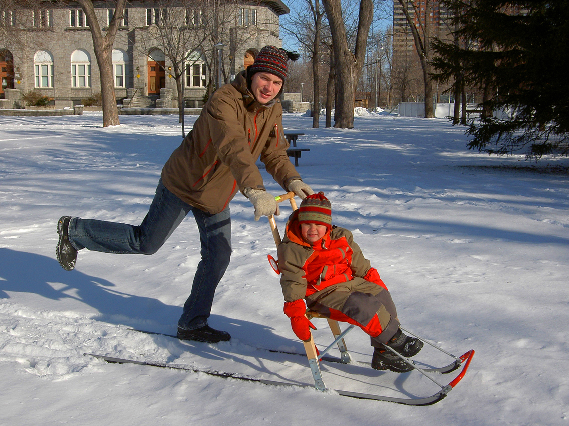 Kicksled